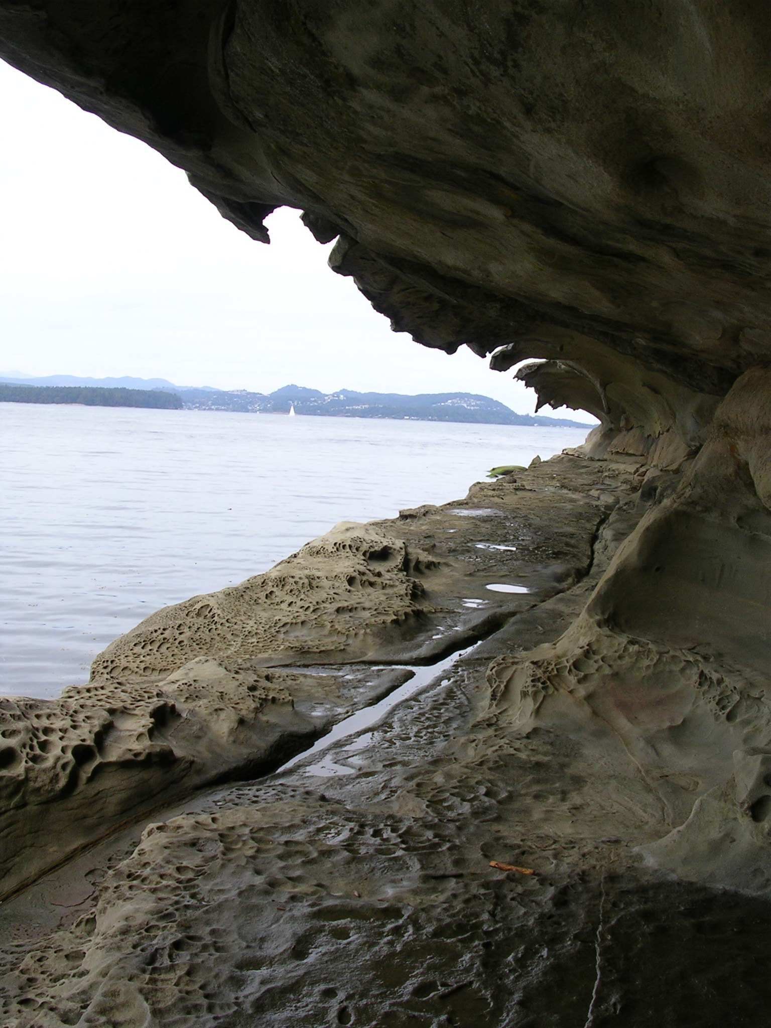 The Malaspina Galleries on Gabriola Island. Taken by user:Clayoquot